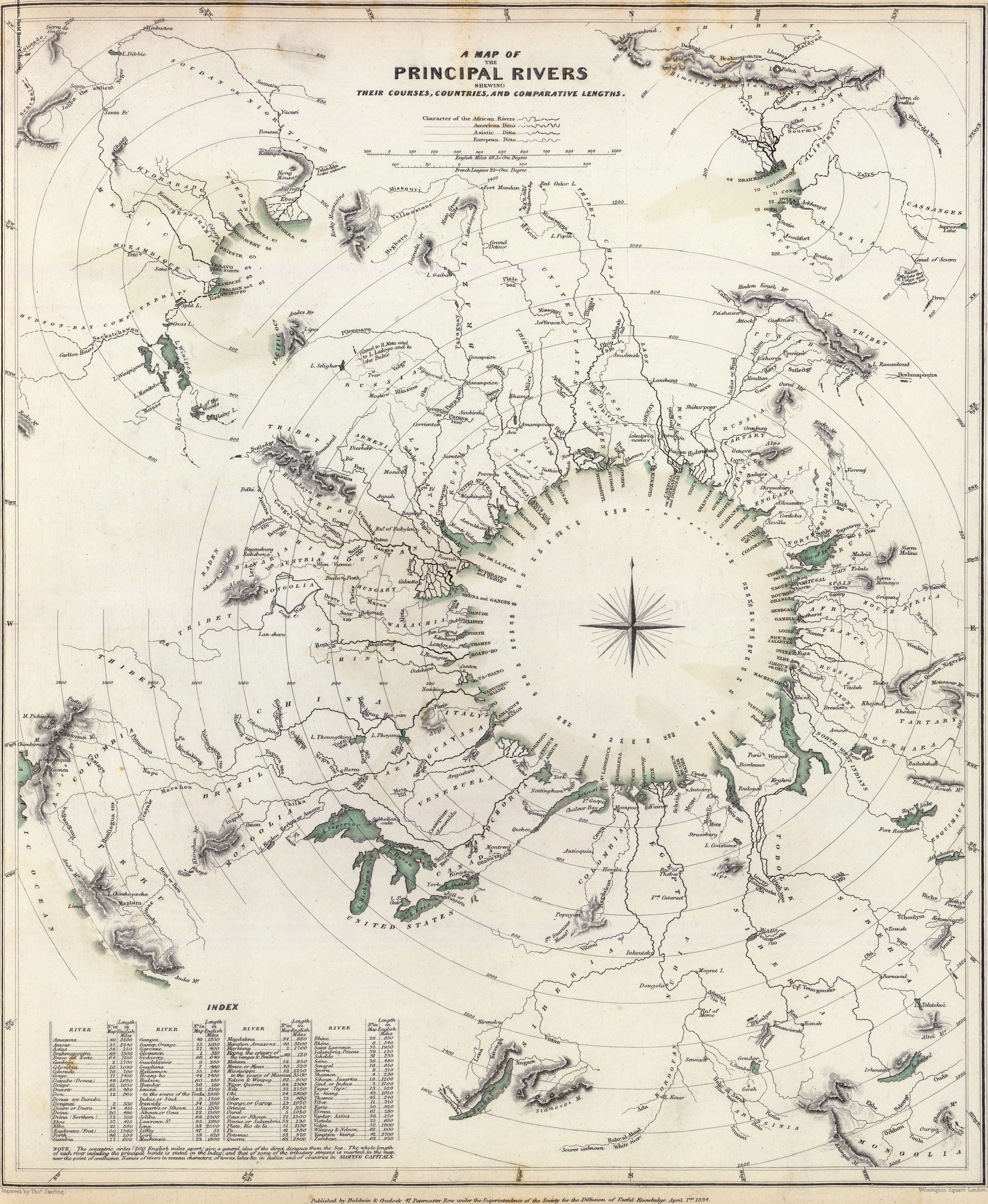 "Map of Comparative River Lengths", by Thomas Sterling (1834)